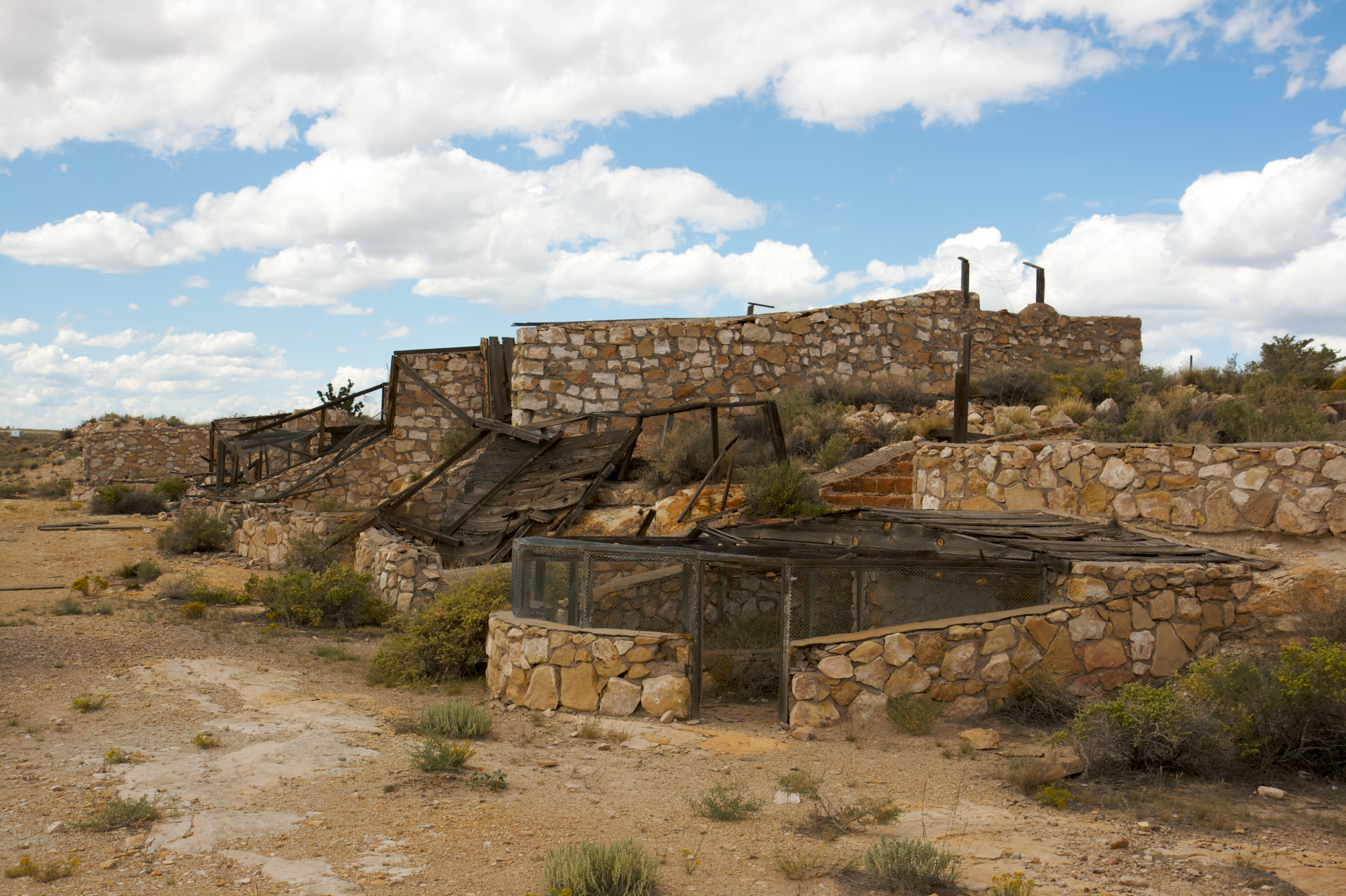 Abandoned zoo cages -Two Guns, Arizona.